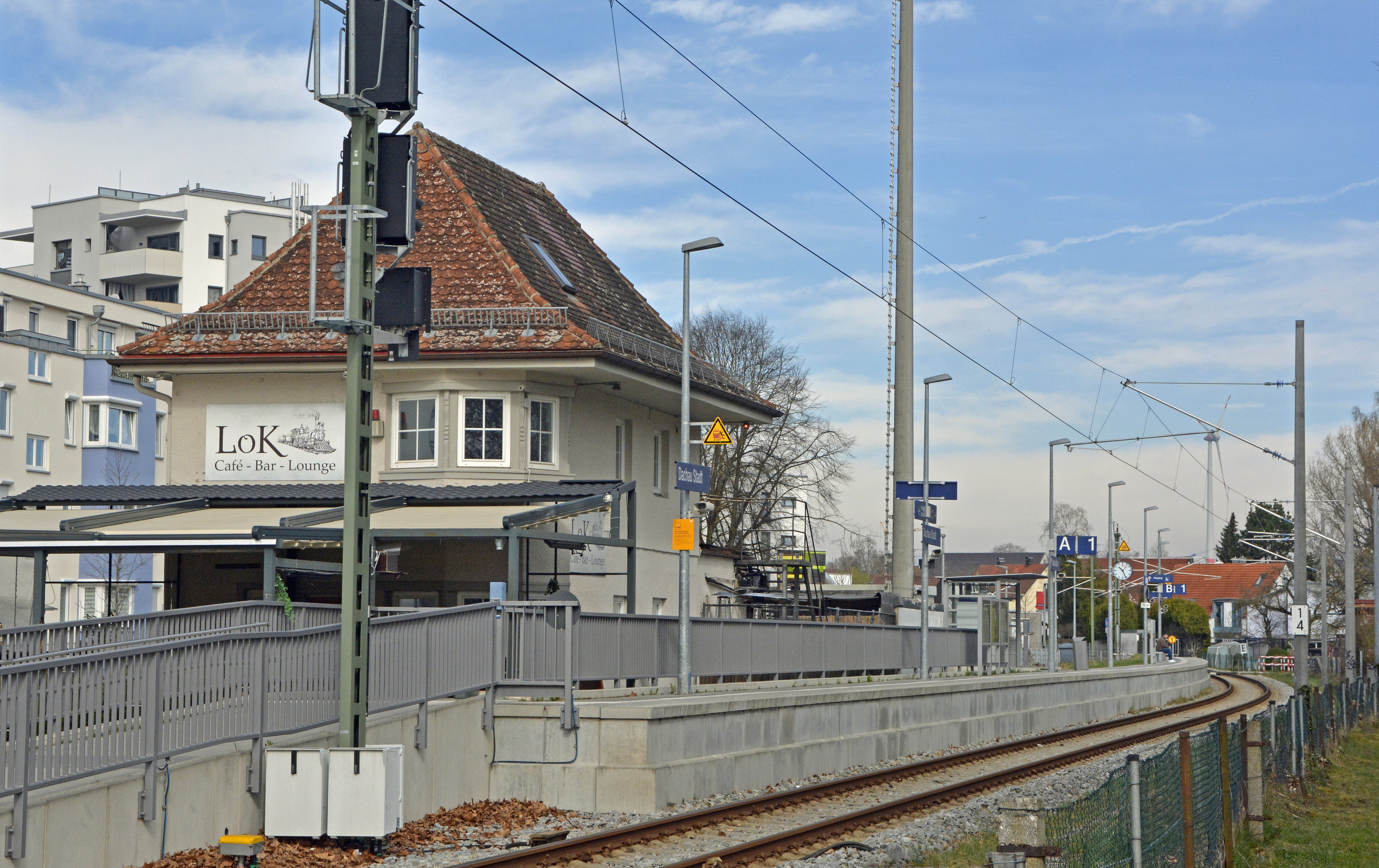 Dachau(Stadt) - Train Station at Line Dachau-Altomuenster